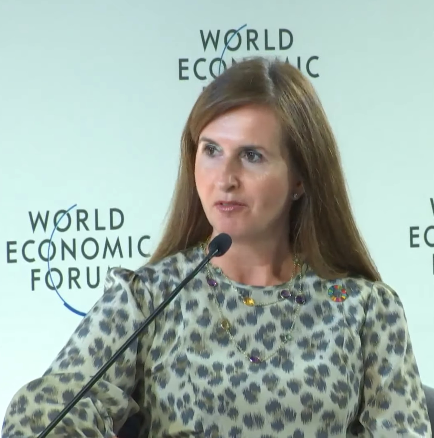 Air pollution is a clear and urgent danger to public health. Outdoor air pollution is responsible for 4.2 million deaths – more than from malaria and HIV/Aids combined, and more than 90 percent of the world’s population lives in areas that exceed World Health Organization (WHO) guidelines for ambient air quality. But while governments, cities and communities around the world are seeking to address the air pollution crisis, businesses are largely missing from the picture. This session features the launch of the Clean Air Fund and will tackle the role business can play in addressing air pollution. · Jane Burston, Managing Director, Clean Air Fund, United Kingdom; Young Global Leader · Katherine Garrett-Cox, Chief Executive Officer, Gulf International Bank (UK), United Kingdom; Young Global Leader · Christoph Wolff, Head of Mobility Industries and System Initiative, World Economic Forum Moderated by · Alem Tedeneke, Media Lead, Canada, Latin America and SDGs, World Economic Forum